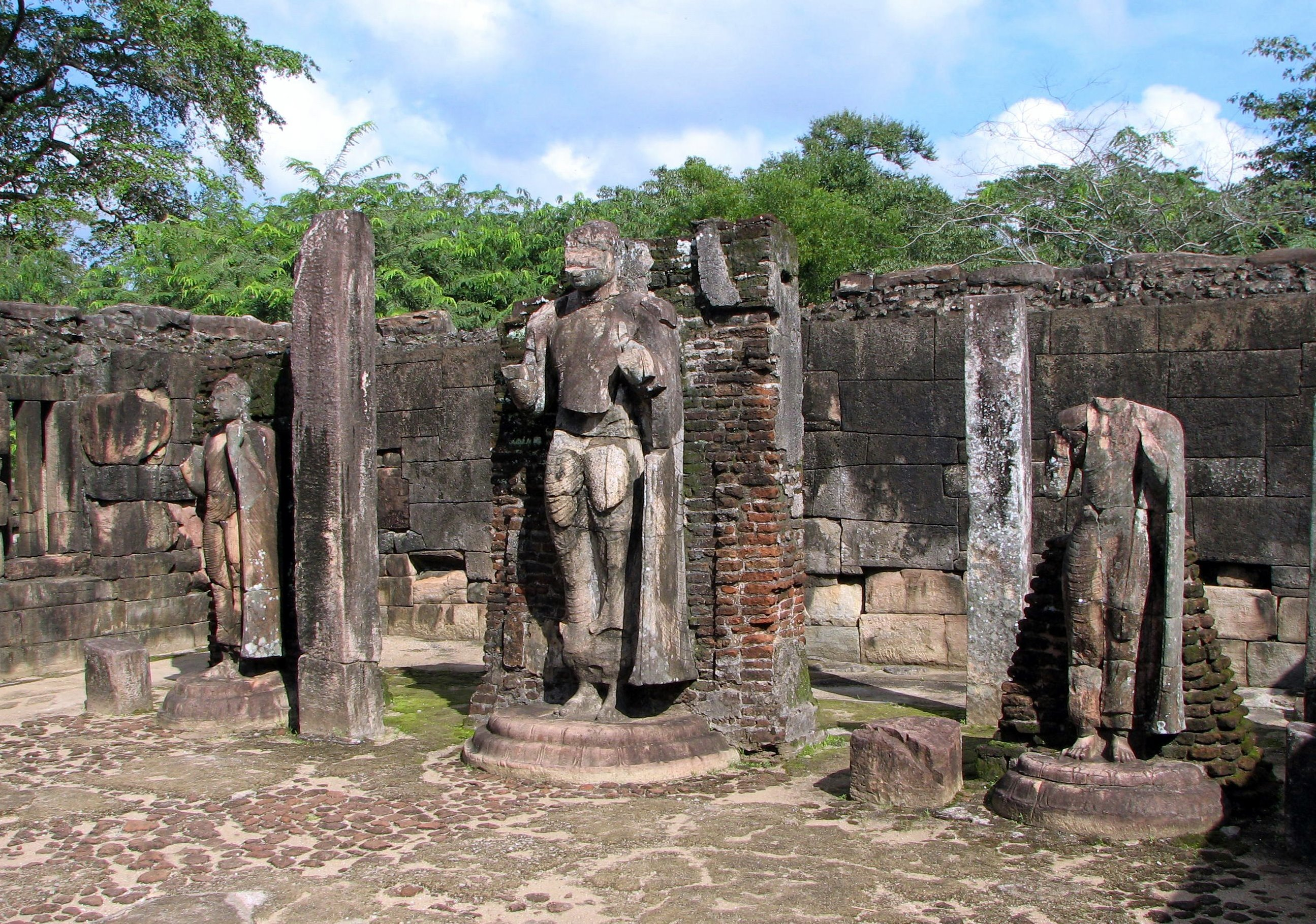 Hatadage building, Polonnaruwa, Sri Lanka